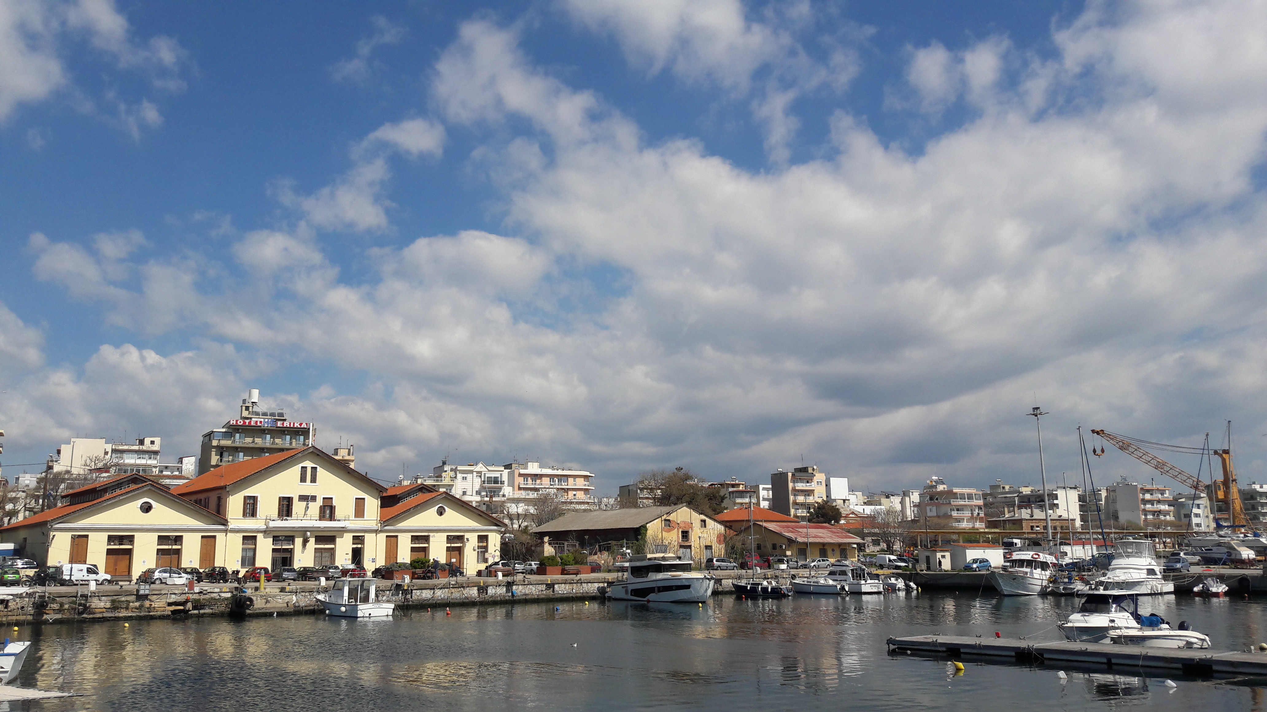 View of the port of Alexandroupolis, Greece